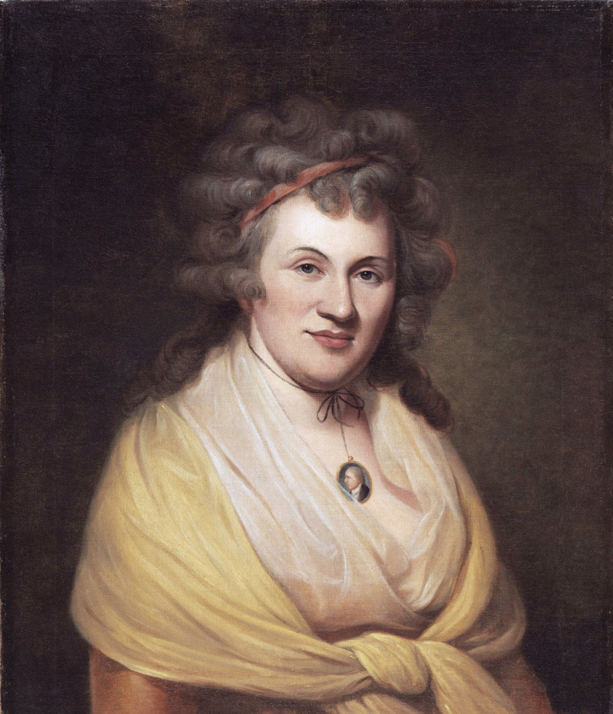 Elizabeth DePeyster Peale (1765 - 1804) oil on canvas 74.3 x 61 cm